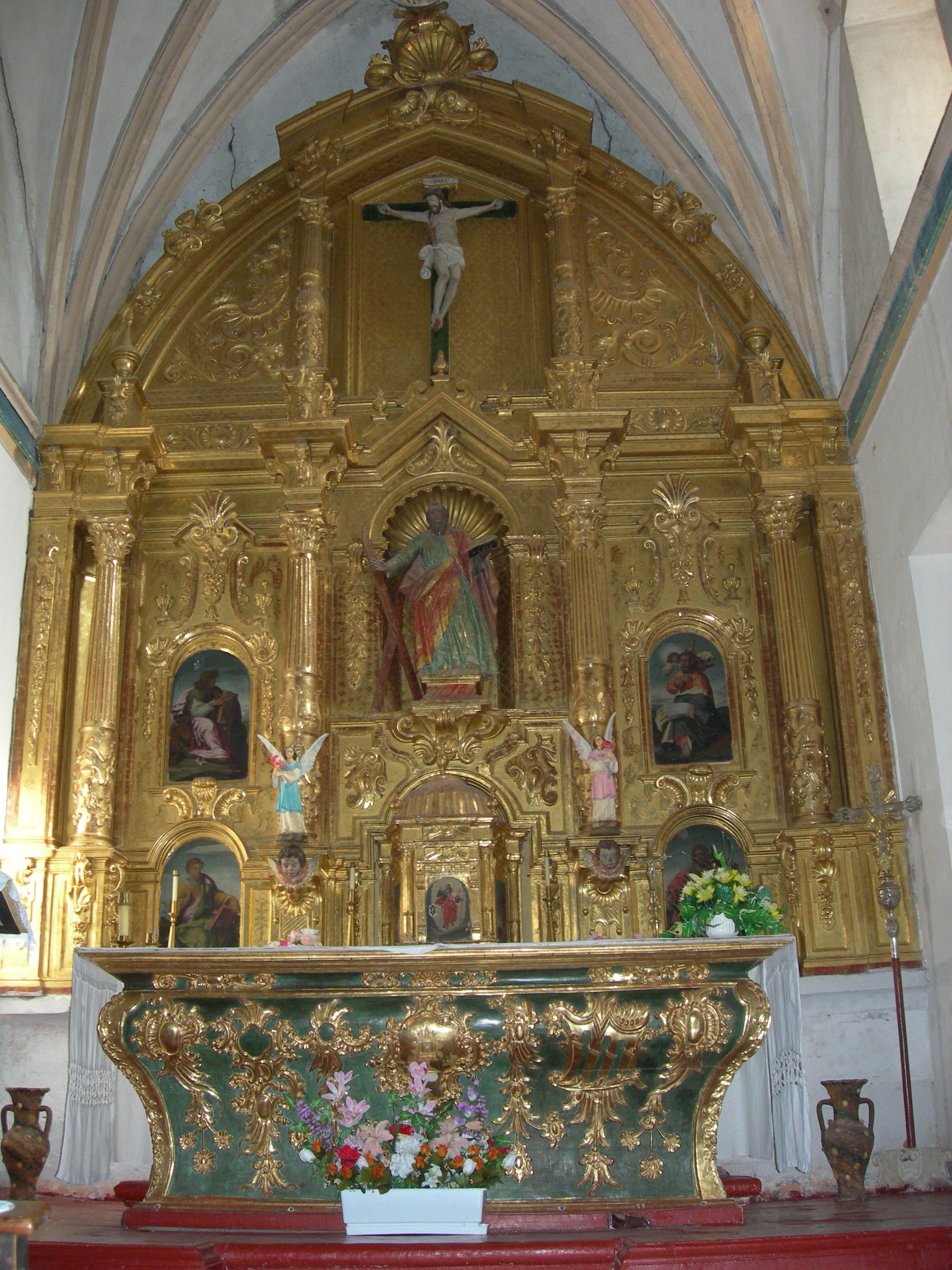 Altar piece in Saraso, Treviño, Spain